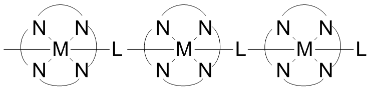 Coord Polymer conductivity